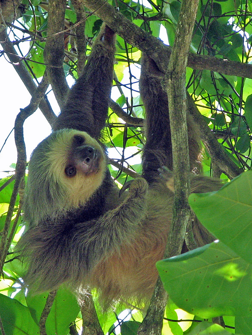 Hoffmann's two-toed sloth (Choloepus hoffmanni) in Manuel Antonio National Park, Costa Rica Cropped version of original photograph uploaded to commons by Leyo.